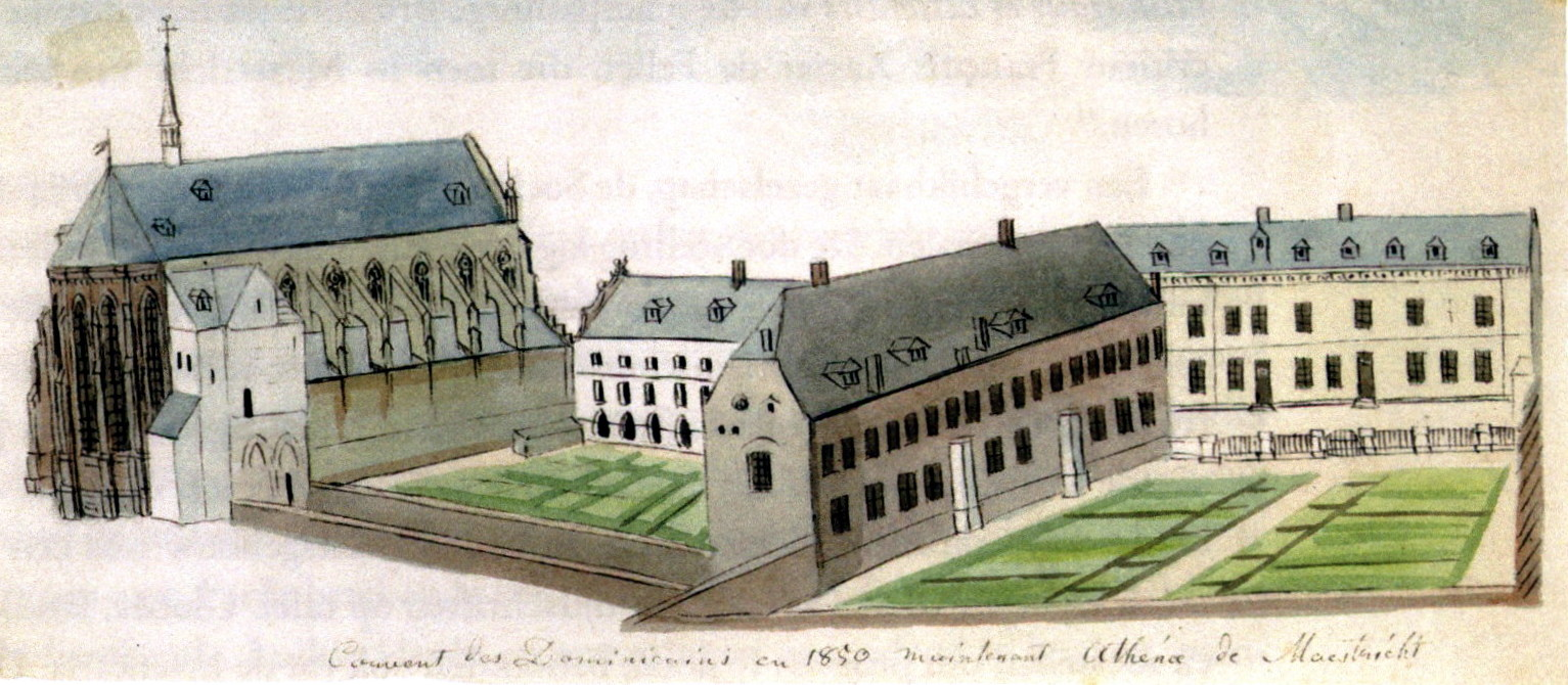 Maastricht, the Netherlands. Drawing of the former Dominican church and monastery, dissolved in 1794, later used as a secondary school. The church is now in use as a book store; the monastery building have been largely demolished. Drawing by Philippe van Gulpen, ca 1850.